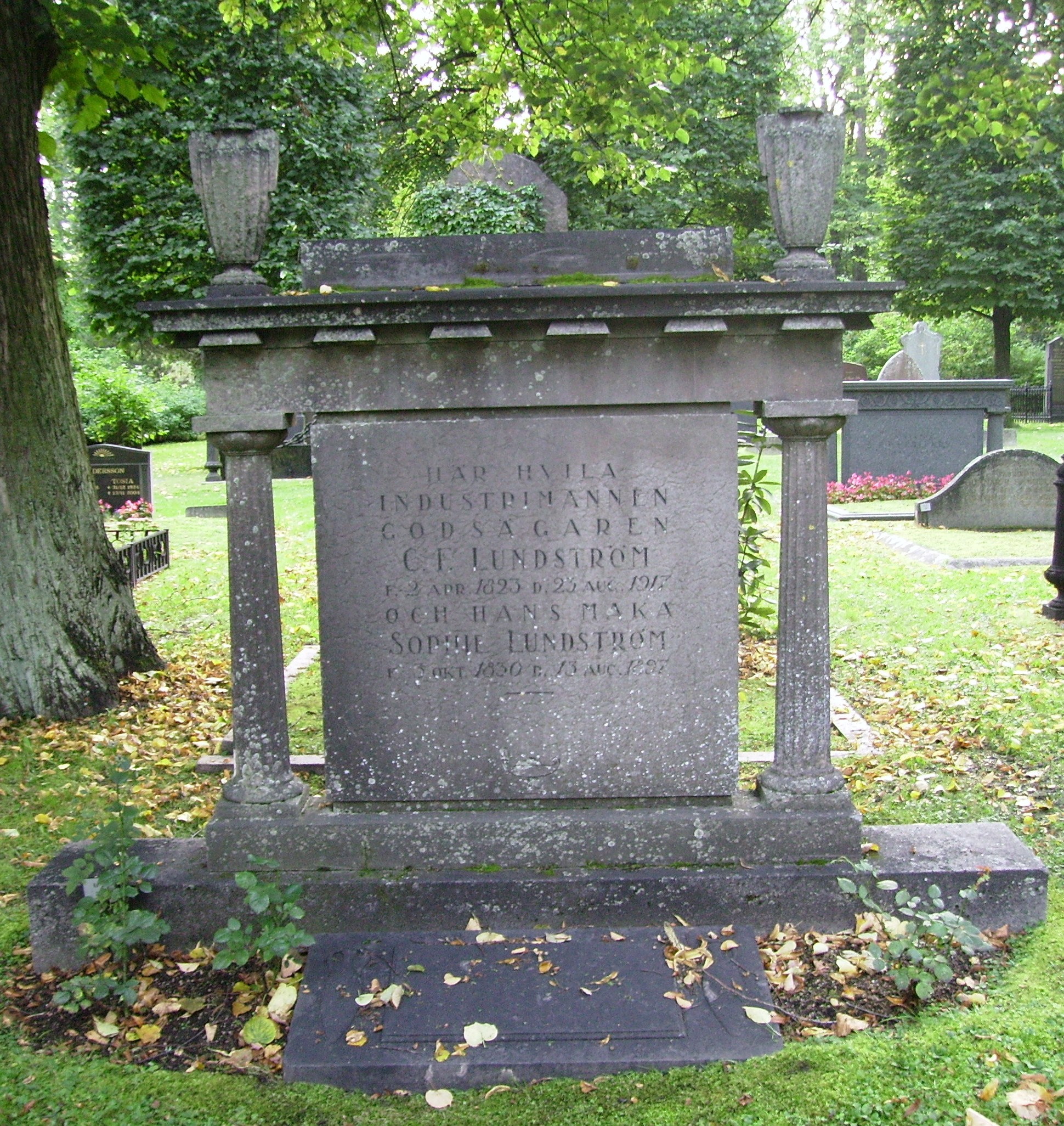 Picture of Carl Frans Lundström's grave at Norra begravningsplatsen in Solna